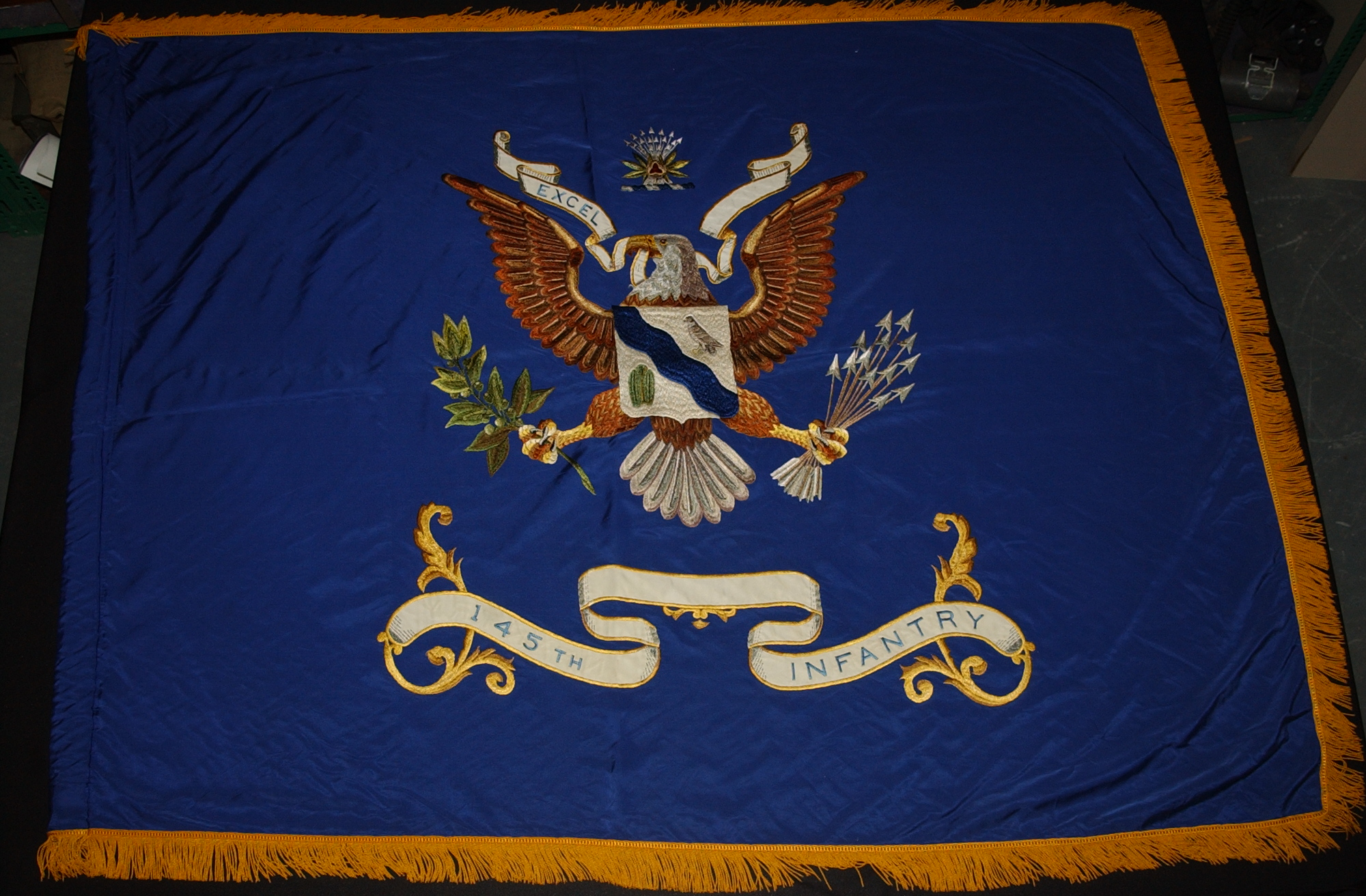 Post-1928 Regimental Colors of the 145th Infantry Regiment, Ohio National Guard